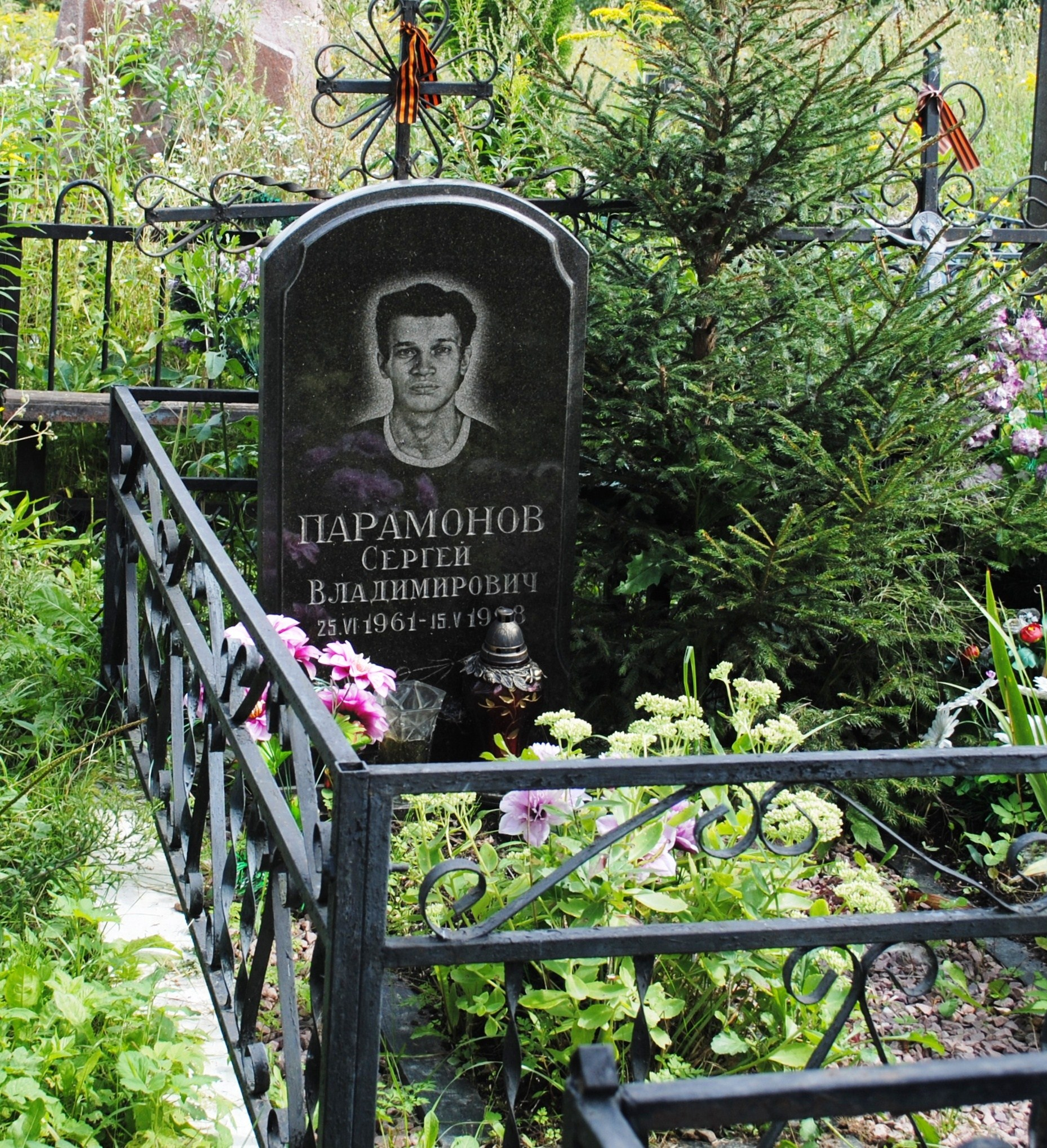 Paramonov S.